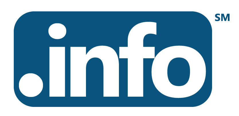 The logo of .info